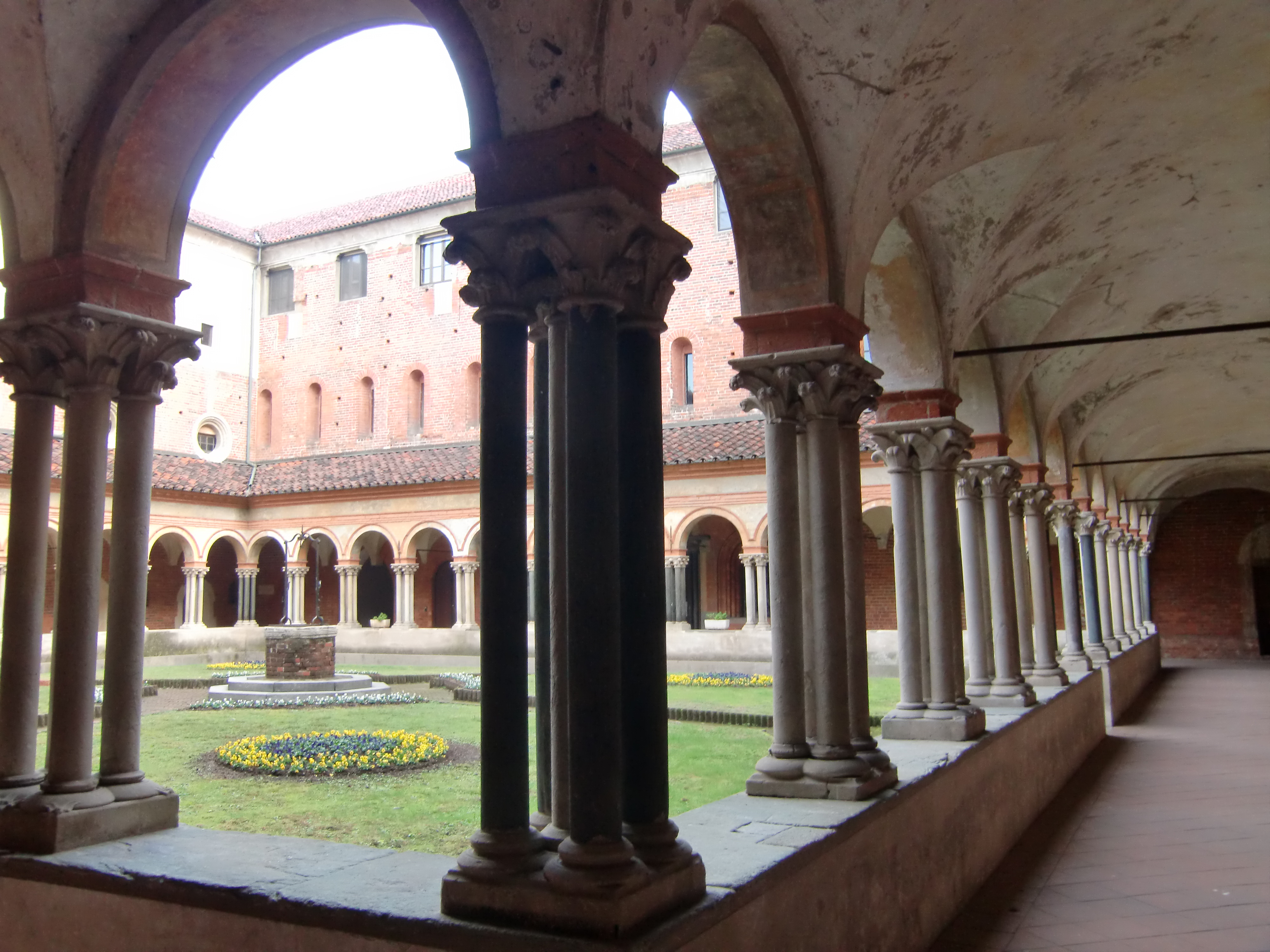 Vercelli, Cathedral of Sant'Andrea, a view of the cloister, XVI century (the columns are the original ones dating from the XIII century)